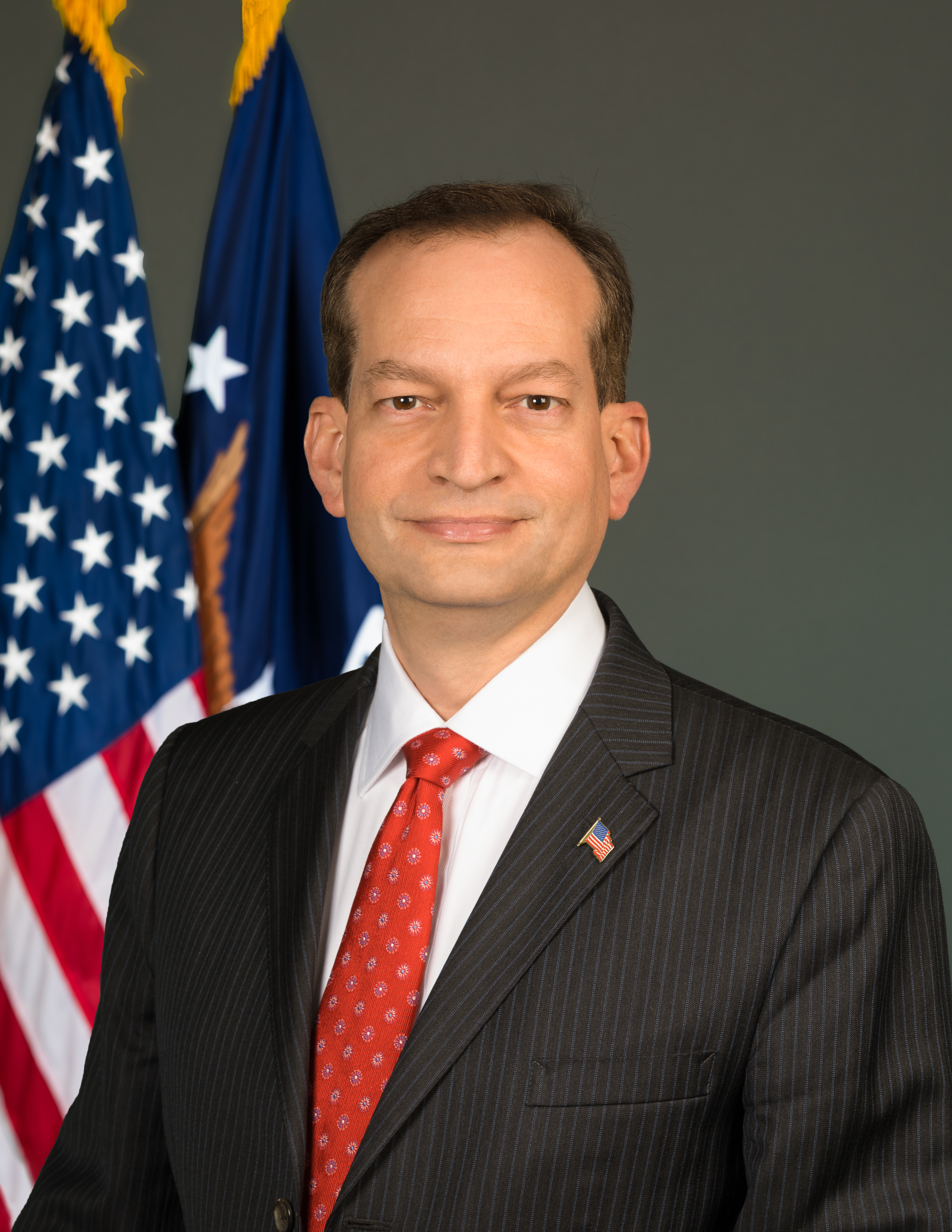 31 May 2017 - Washington, D.C. - U.S. Secretary of Labor R. Alexander Acosta Official Photograph. Official Department of Labor Photograph*** Photographs taken by the federal government are generally part of the public domain and may be used, copied and distributed without permission. Unless otherwise noted, photos posted here may be used without the prior permission of the U.S. Department of Labor. Such materials, however, may not be used in a manner that imply any official affiliation with or endorsement of your company, website or publication. Photo Credit: Department of Labor Shawn T Moore